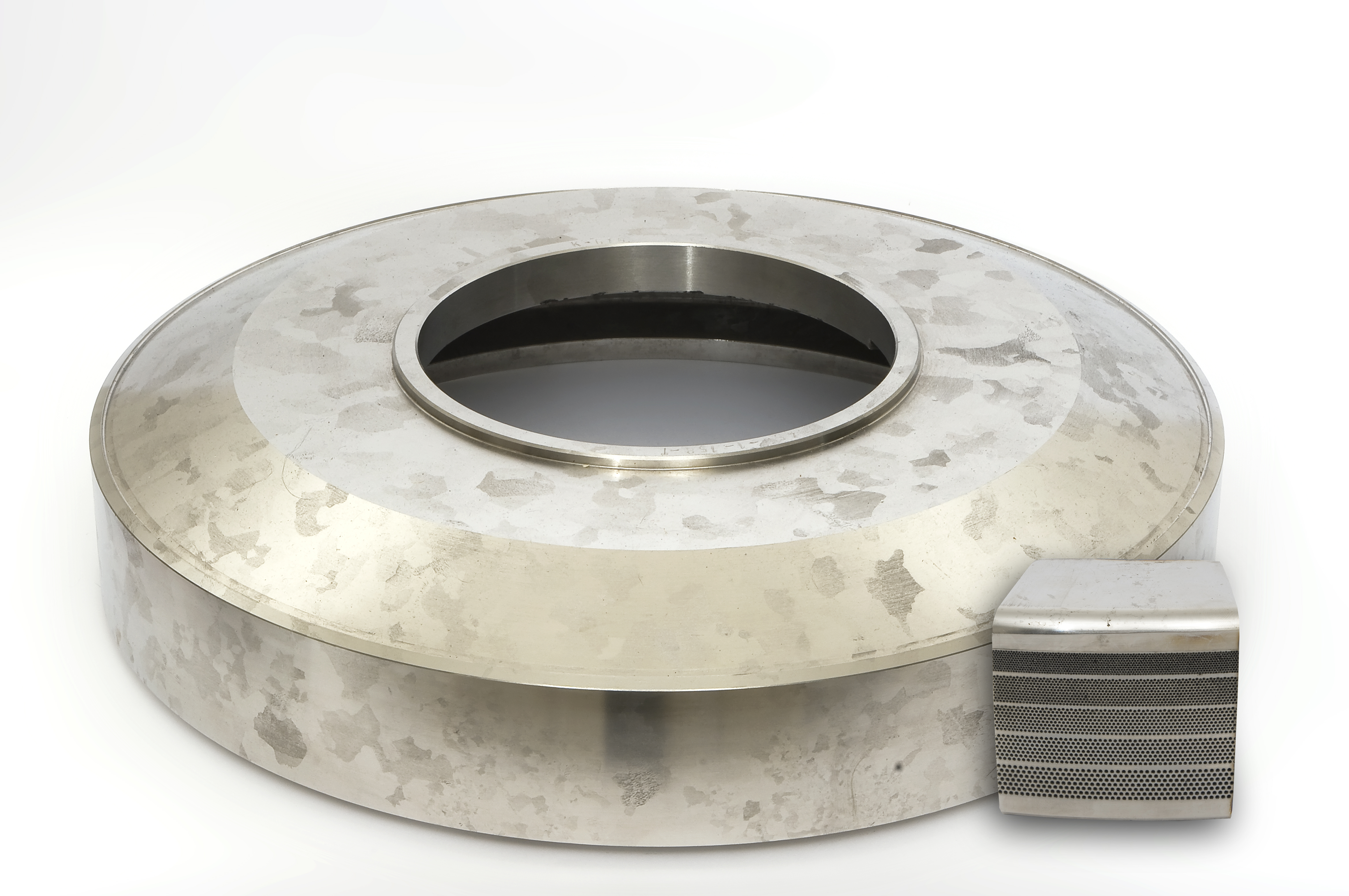 Spinning heads used for manufacturing mineral wool, made in the Czech Republic